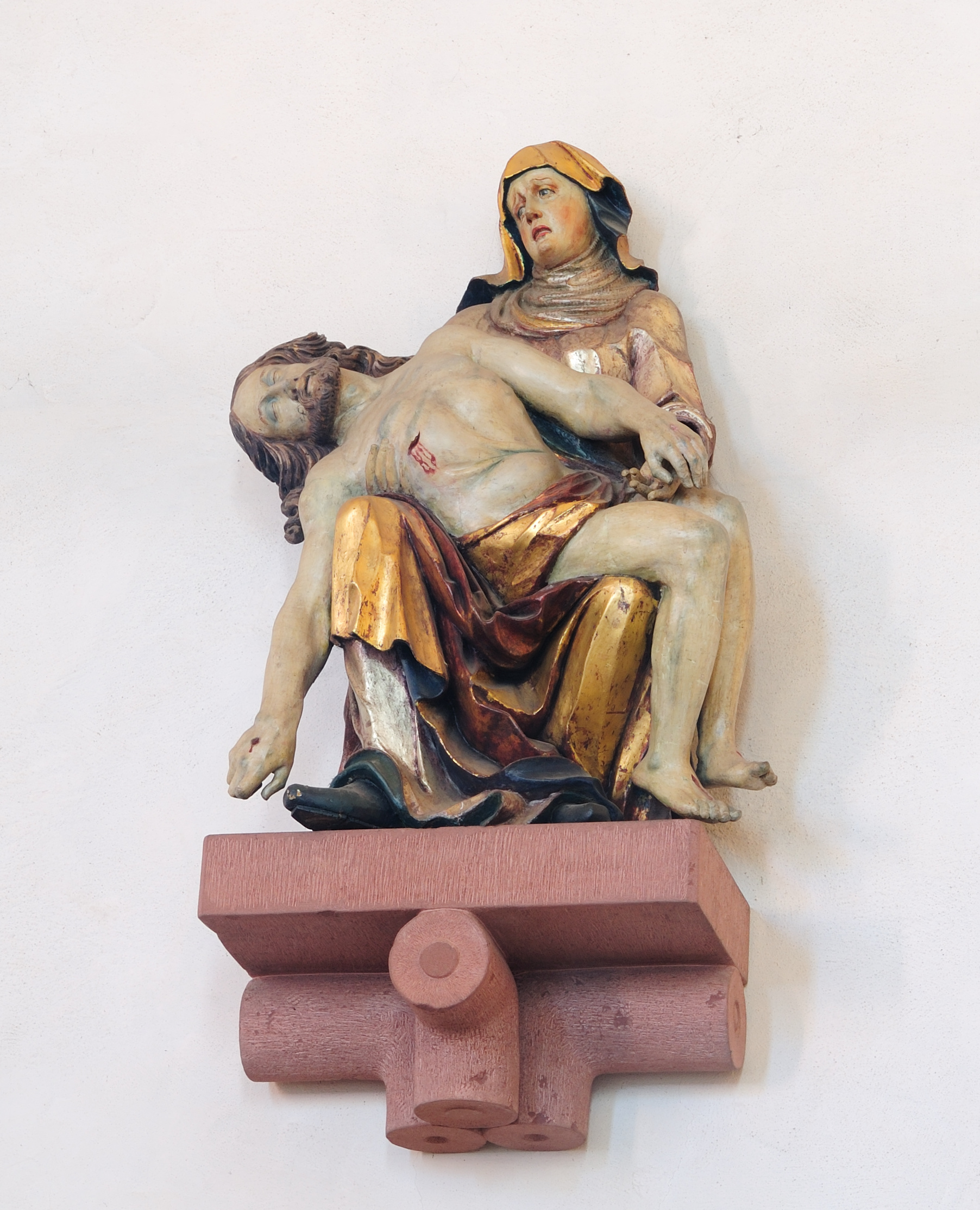 Pietà at Saint Gallus Church in Rheinfelden, Germany